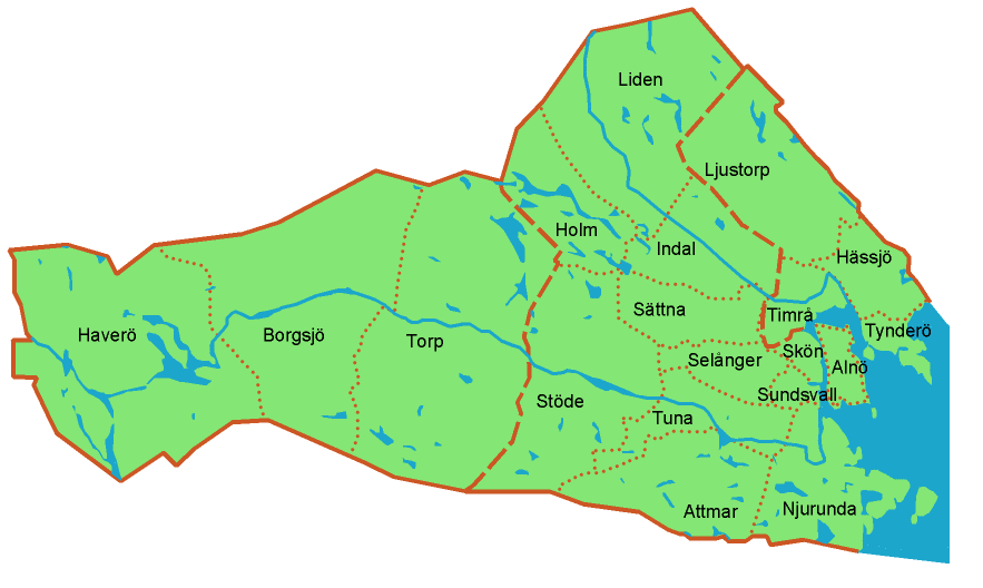 Map of Medelpad